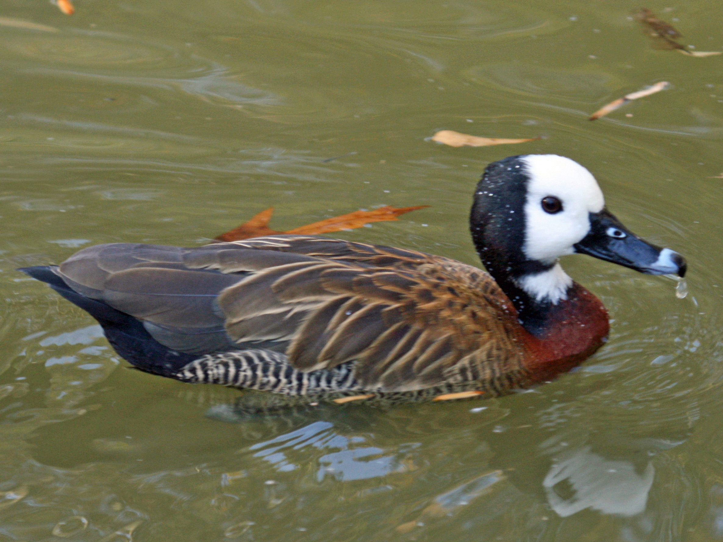 White-faced Whistling-Duck (Dendrocygna viduata) at Sylvan Heights Waterfowl Park in Scotland Neck, North Carolina.